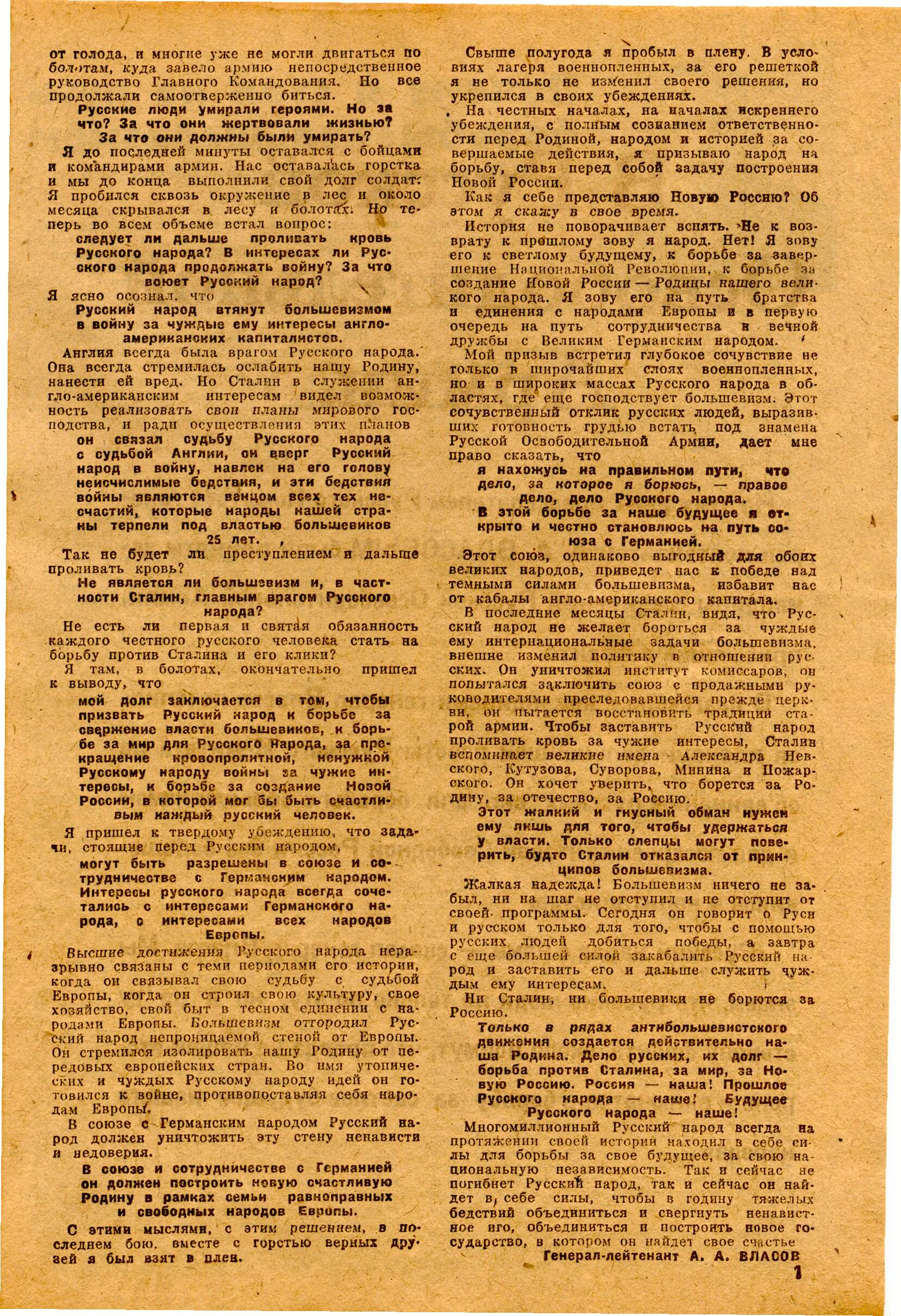 Andrey Vlasov, Listovka-2